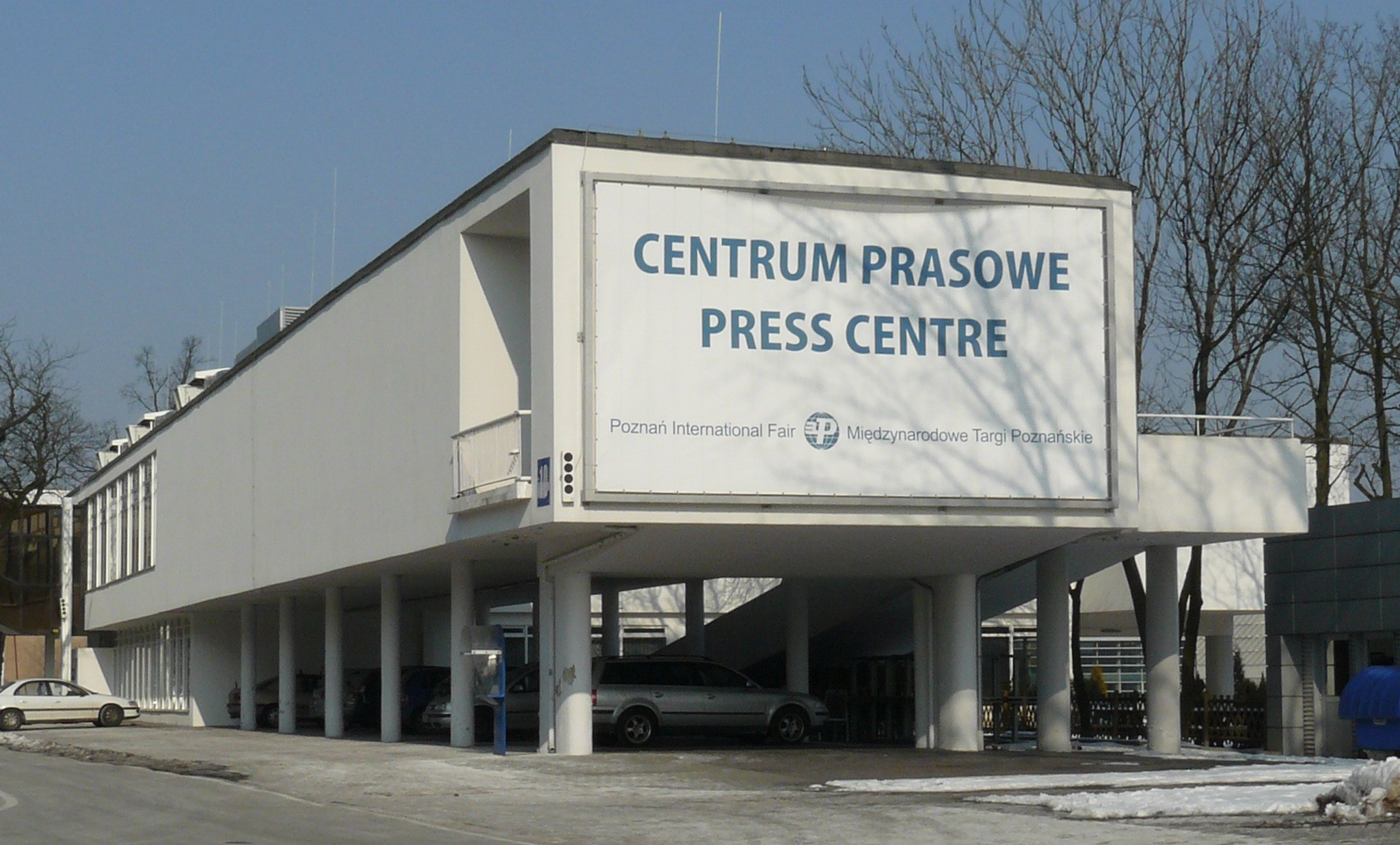 Int. Poznan Fair, pav. 10 (1949).